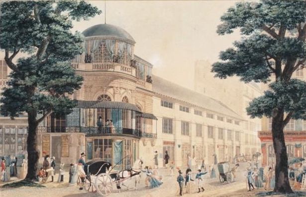 The Pavillon de Hanovre on the Boulevard des Italiens, Paris 2nd arr. The street which leads to the background is the rue Louis-le-Grand.